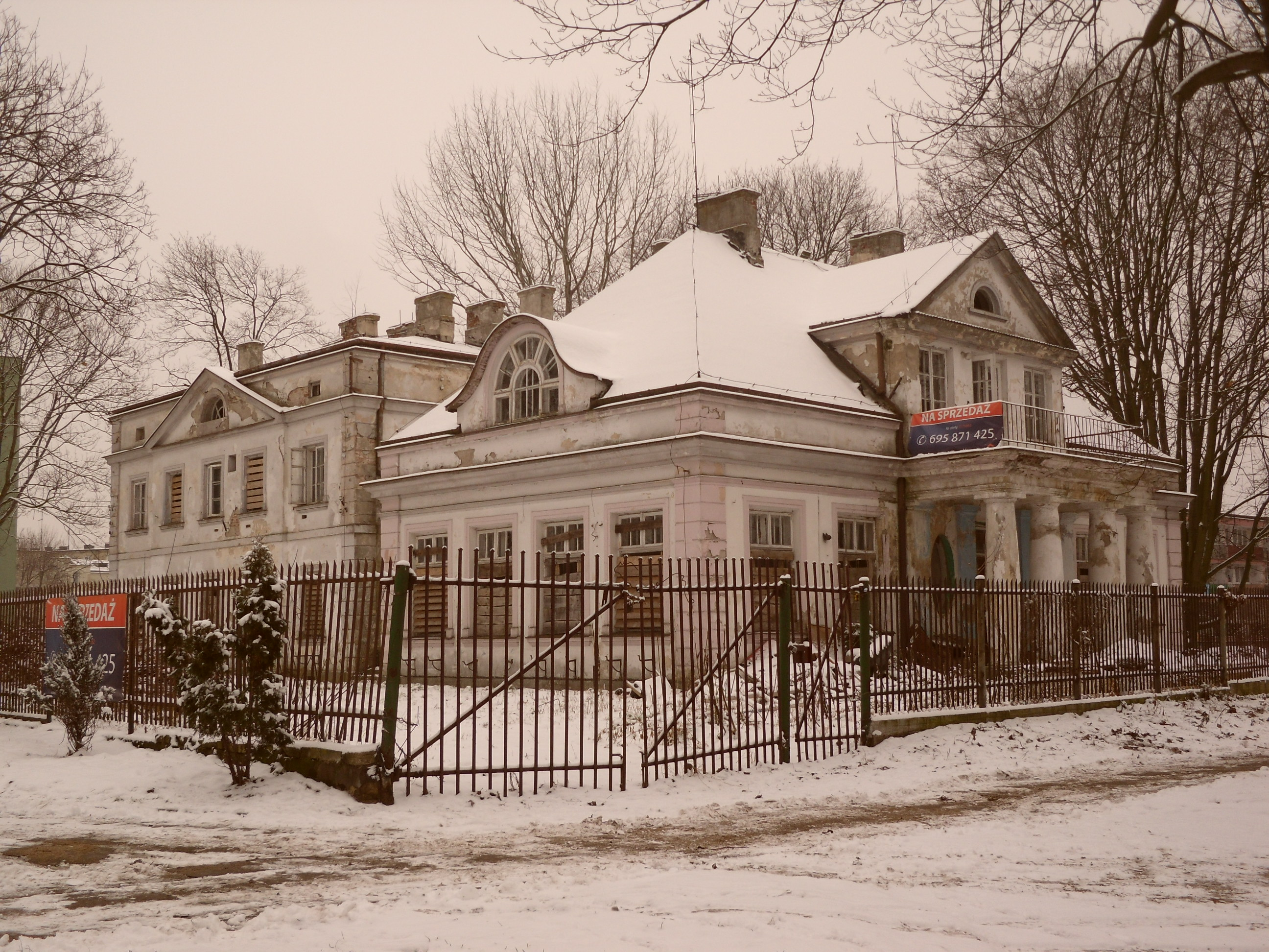 Chodaków - manor house